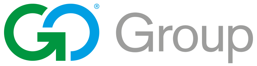 Company AS Go Group logo